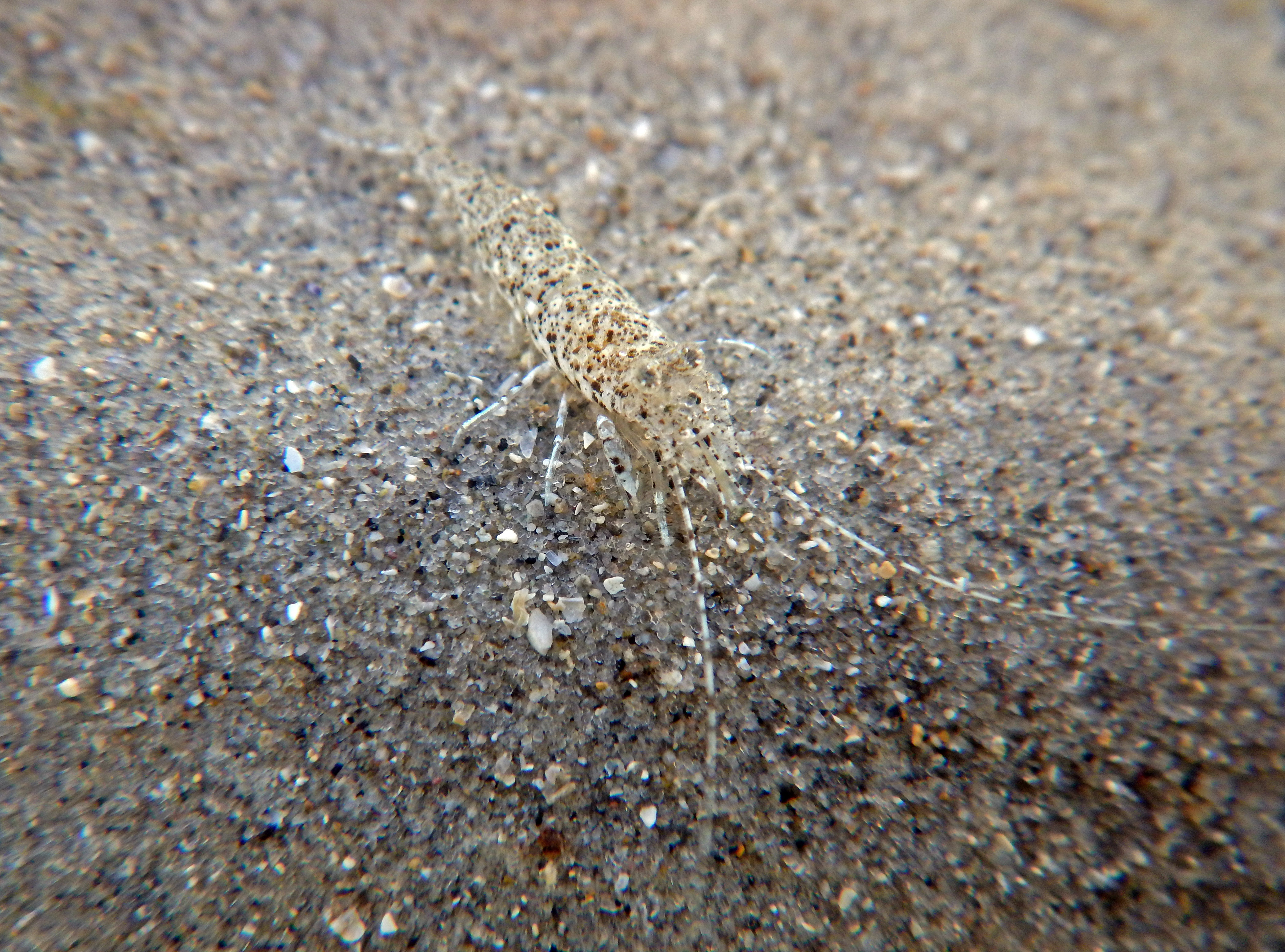 Mimicry ; European brown shrimp (Crangon crangon) photographed underwater in Wimereux on the foreshore at low tide in July 2016.